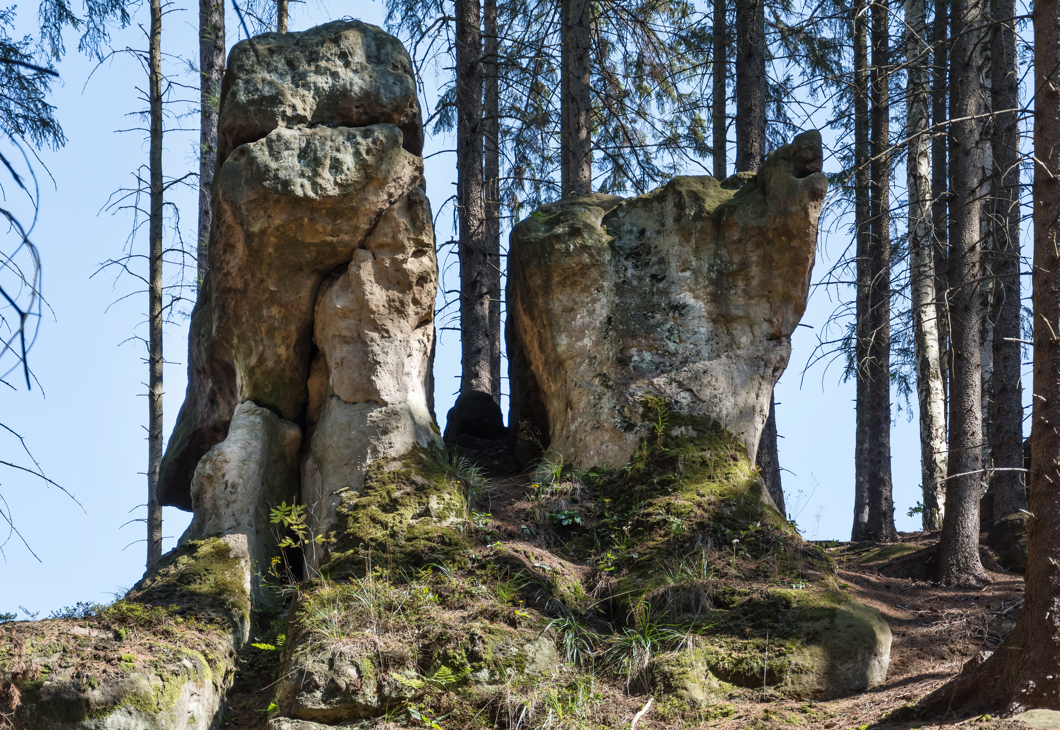 Nature reserve Głazy Krasnoludków